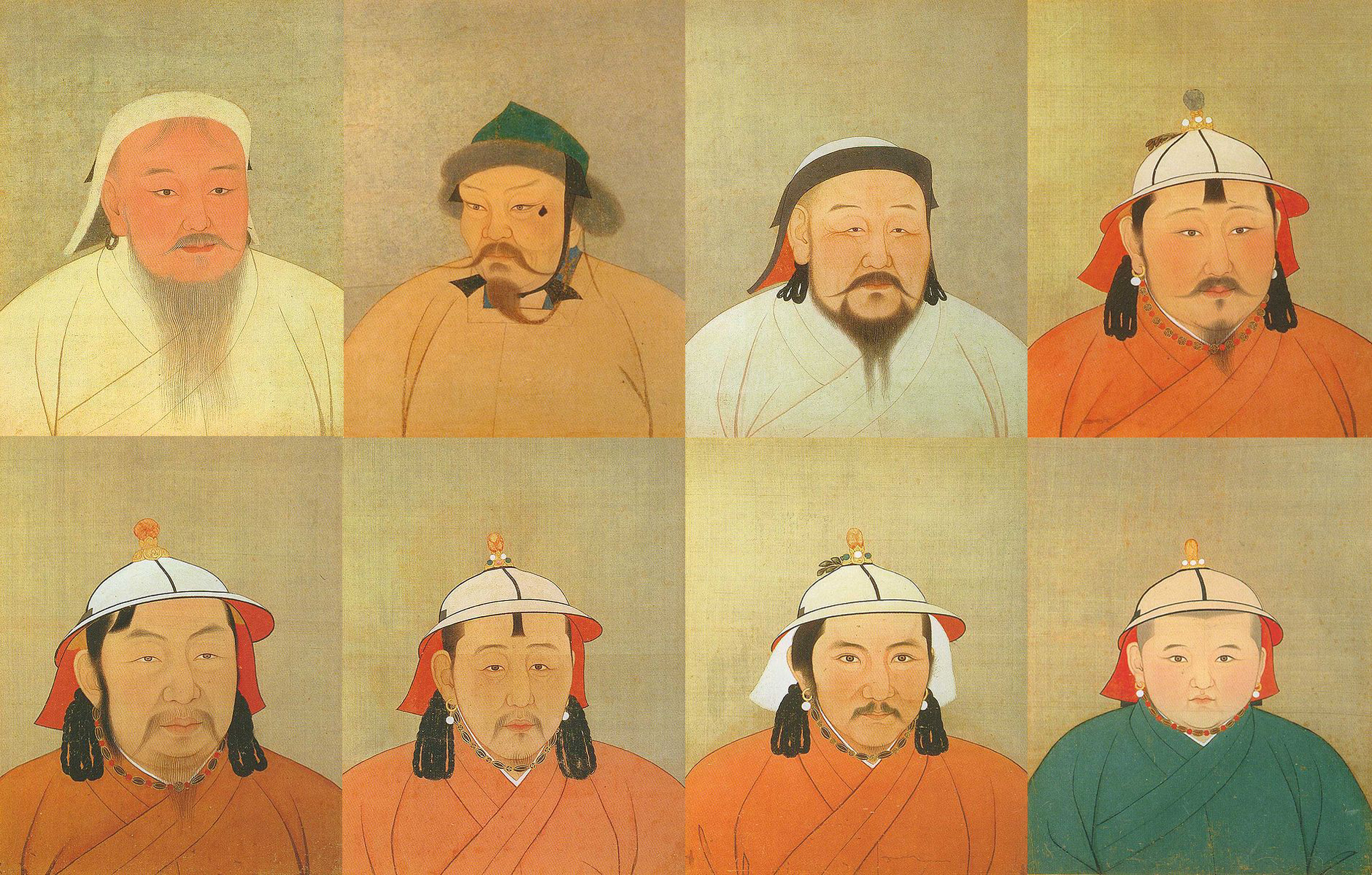 Eight of 15 Great Khagans of the Mongolian Empire.